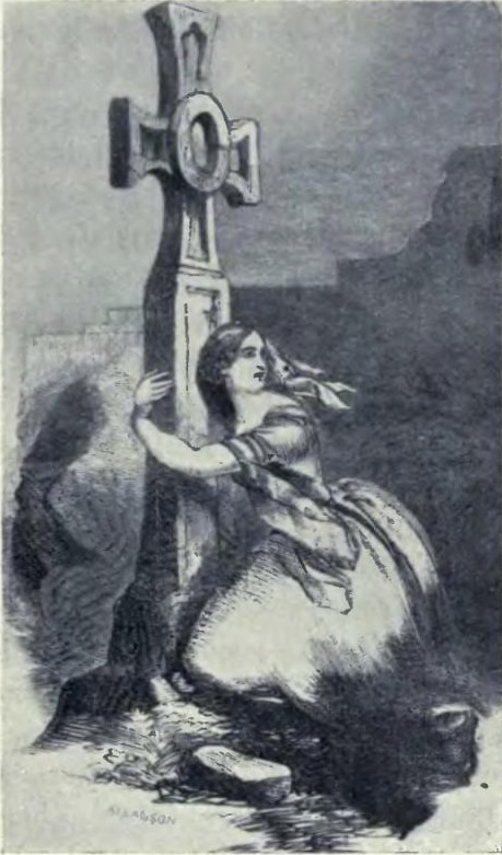 Jenny Lind as Alice in Giacomo Meyerbeers Robert le Diable. After an English litography, 1847. Image from Nils Personne: Svenska Teatern VIII (1927).